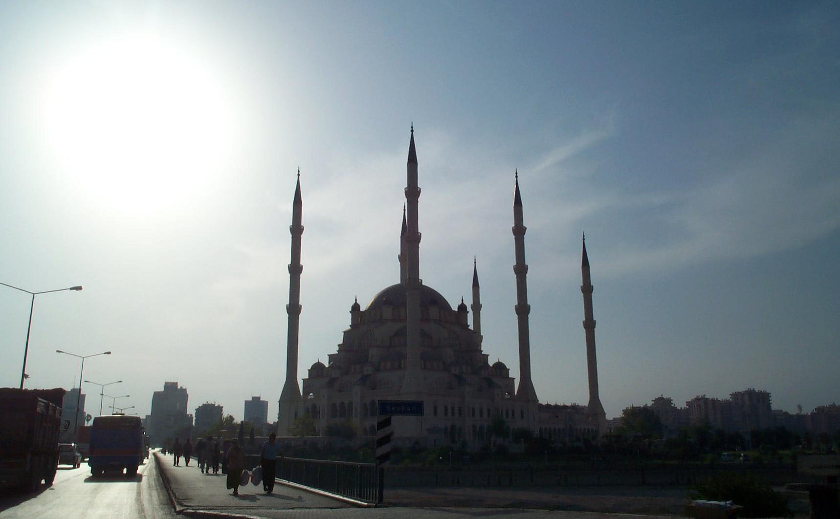 Photo of the big mosque of Adana.